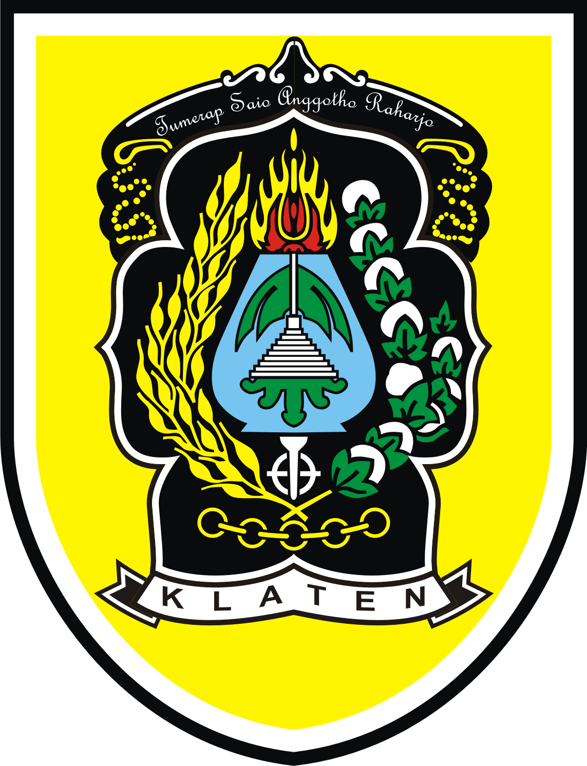 Coat of arms of Klaten Regency, Central Java